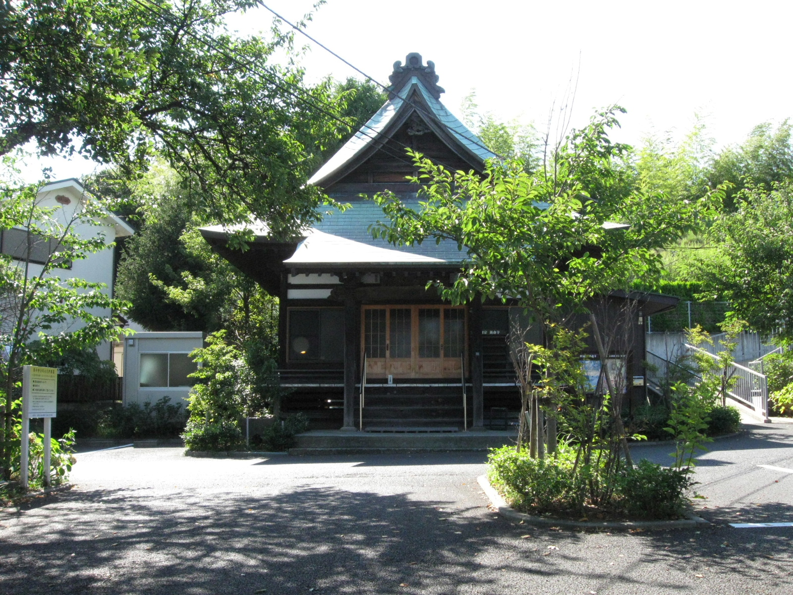 Yōmei-ji in Fujisawa City, Kanagawa Prefecture, Japan